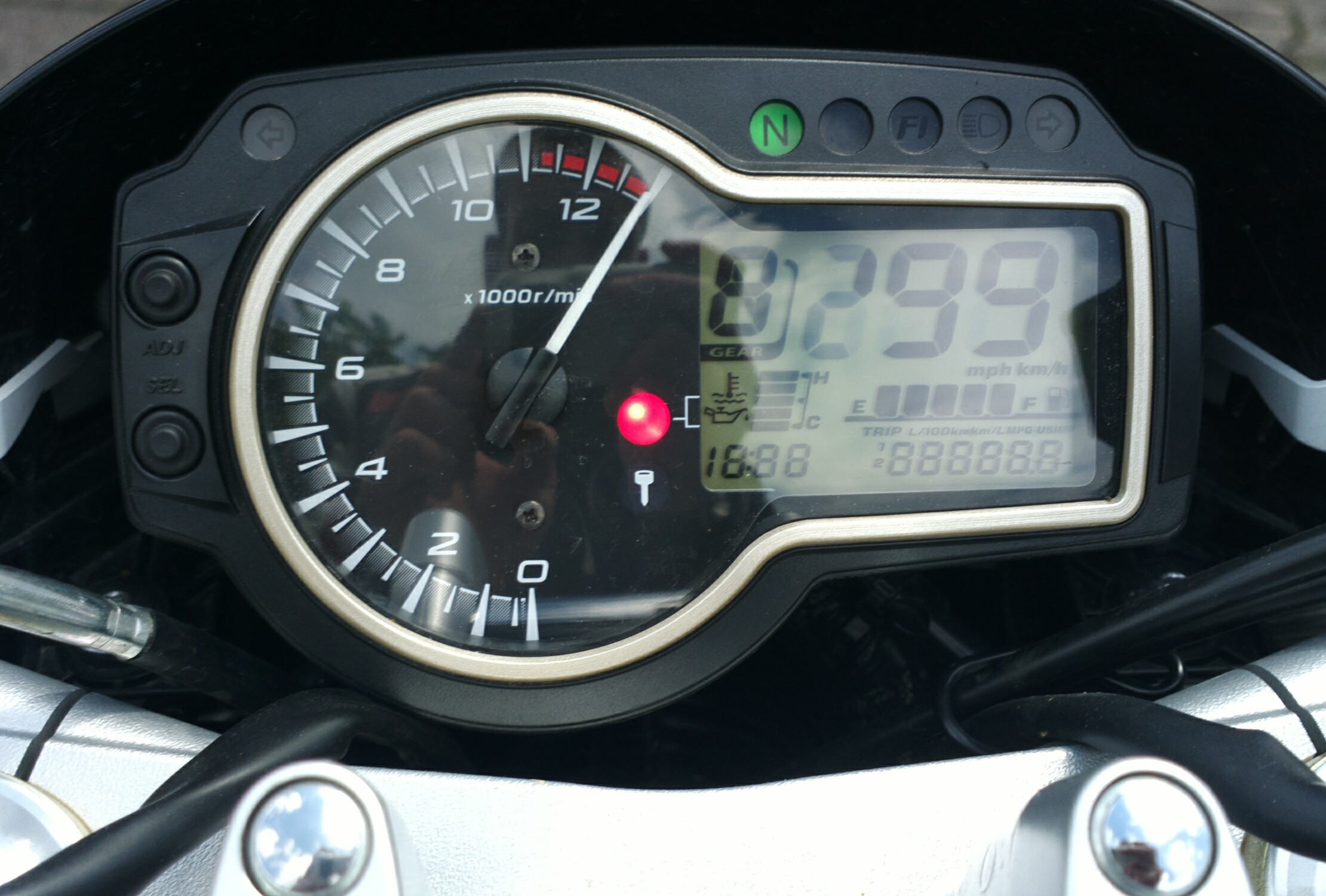 Suzuki Gsr 750 instrumentation